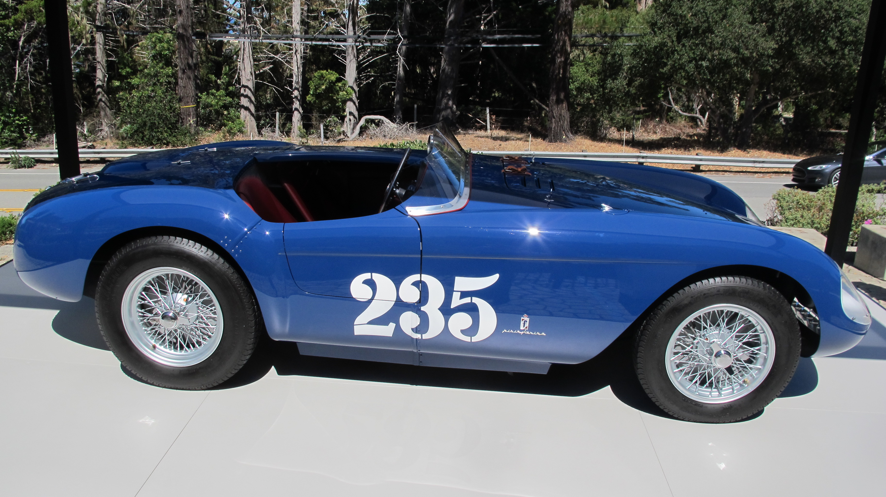 1954 Ferrari 500 Mondial Spyder Pinin Farina originally owned by Porfiro Rubirosa and later owned by John Von Neumann. This is serial number 0438MD.[1]